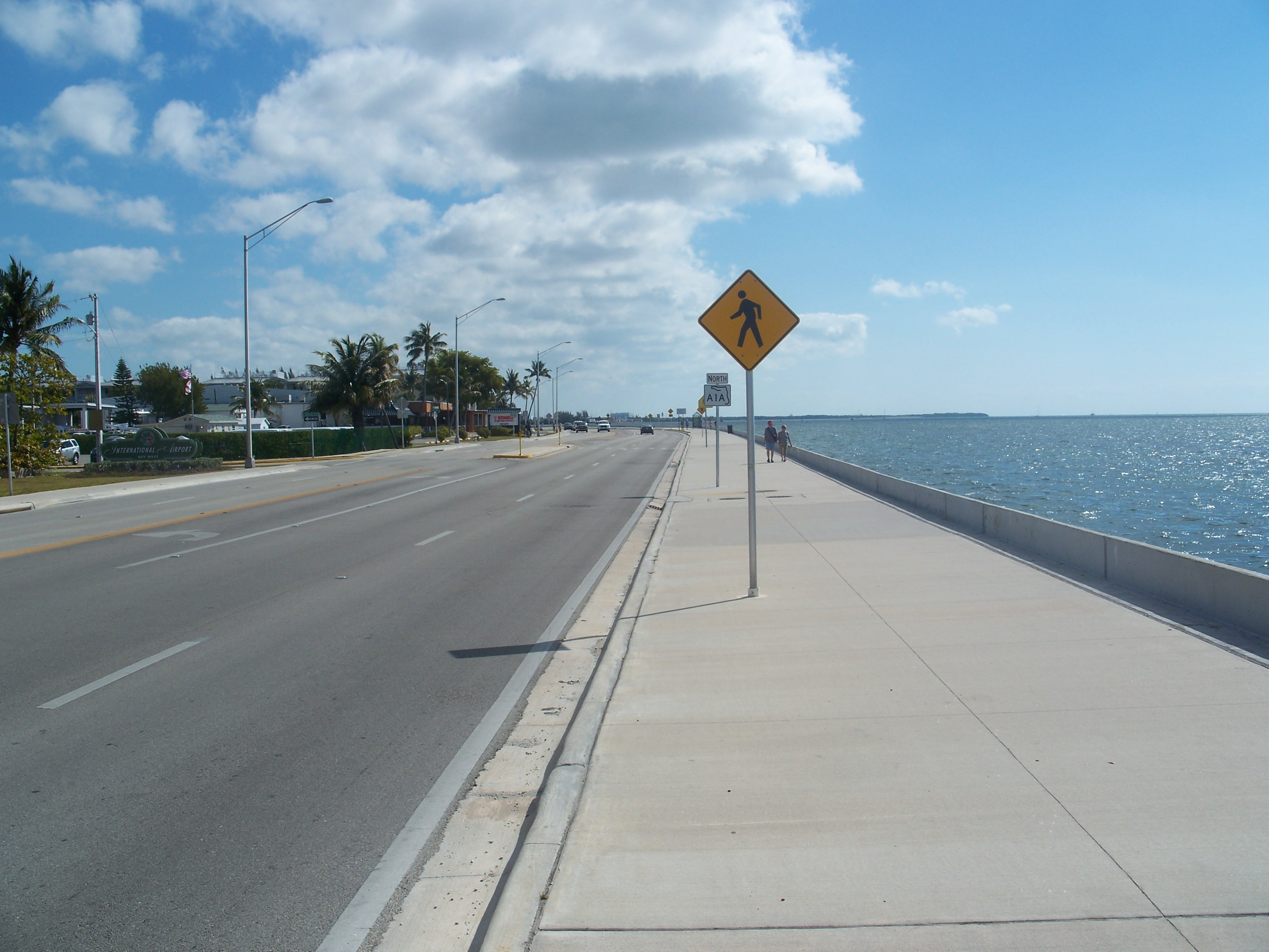 Key West, Florida: Florida State Road A1A